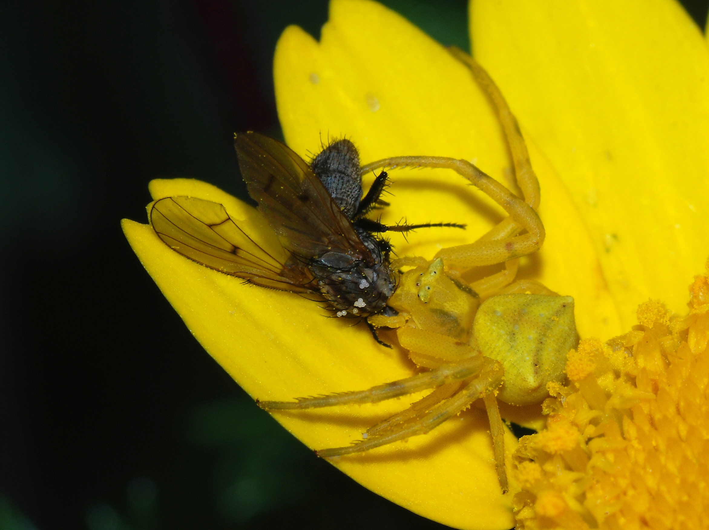 A crab spider (Thomisus onutus) with prey